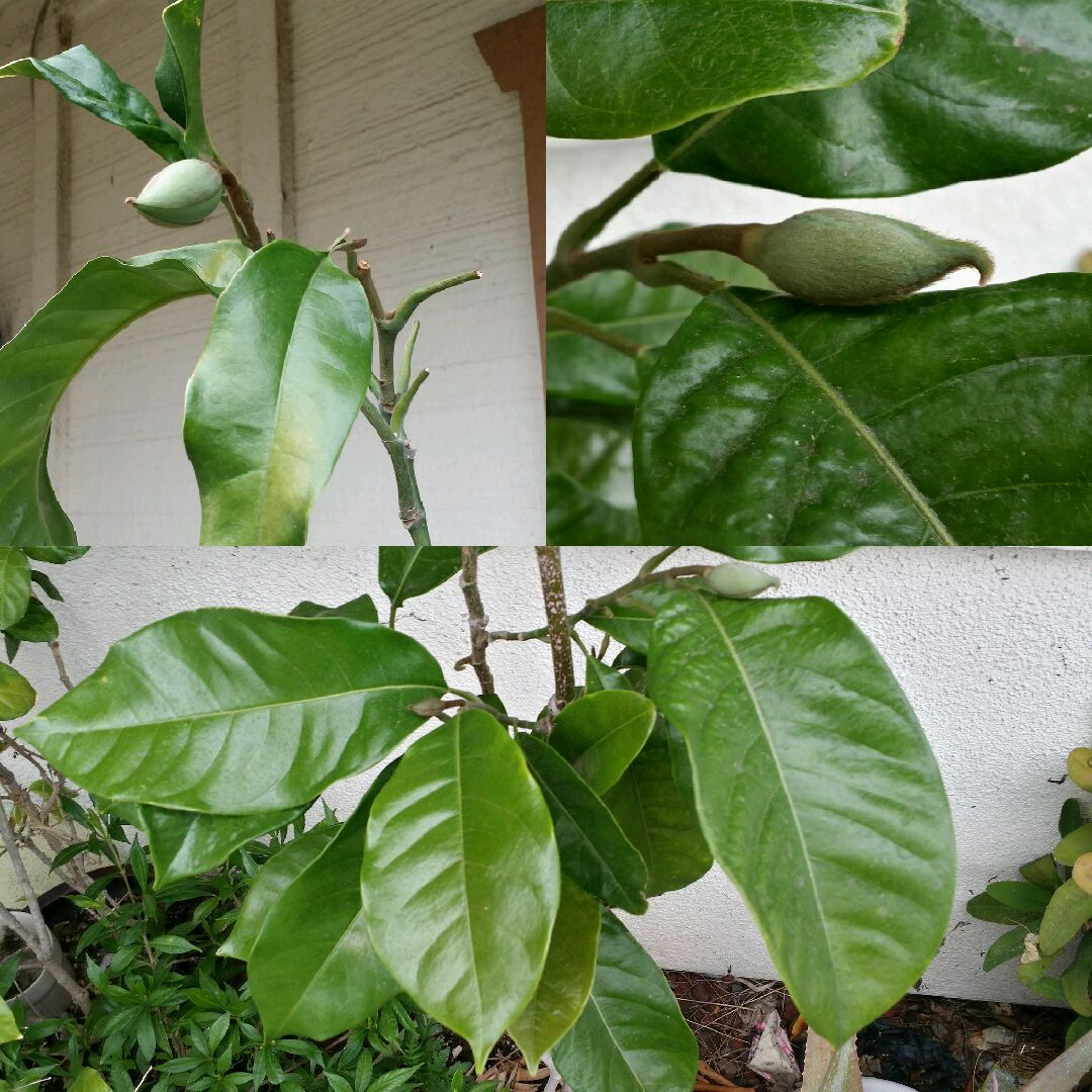 Magnolia liliifera foliage and flower bud in collage. Provenance of then plant is from Logee's Greenhouse.